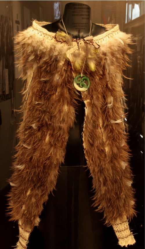 Te Mahutonga Cloak (The Southern Cross) worn by the New Zealand Olympic Flagbearer on display at the New Zealand Olympic Museum.